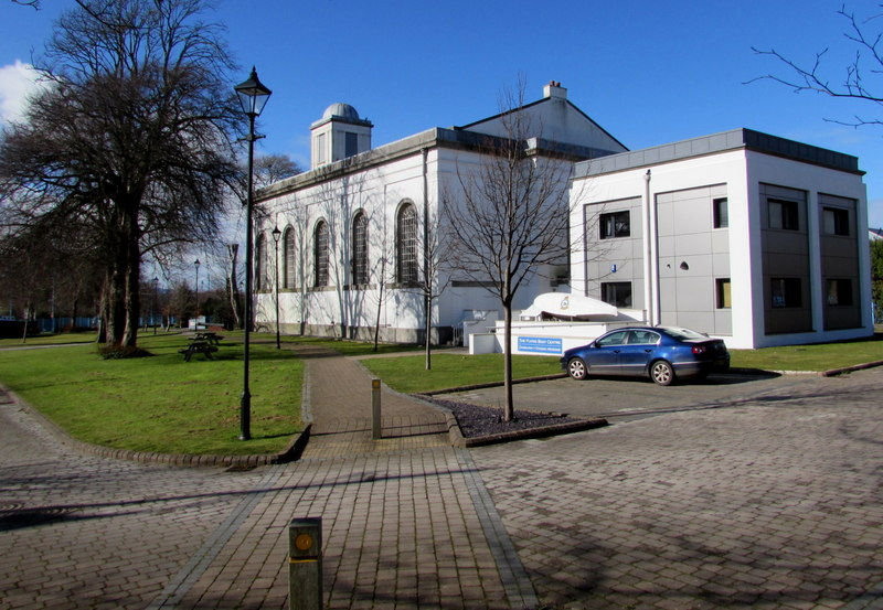 The Flying Boat Centre, Pembroke Dock. The Sunderland T9044 Flying Boat Heritage Centre located in the Royal Dockyard Chapel, Meyrick Owen Way. There was a Royal Air Force base in Pembroke Dock for nearly 30 years. In 1943, when home to the Sunderland flying boats, it was the largest operational base for flying boats in the world.